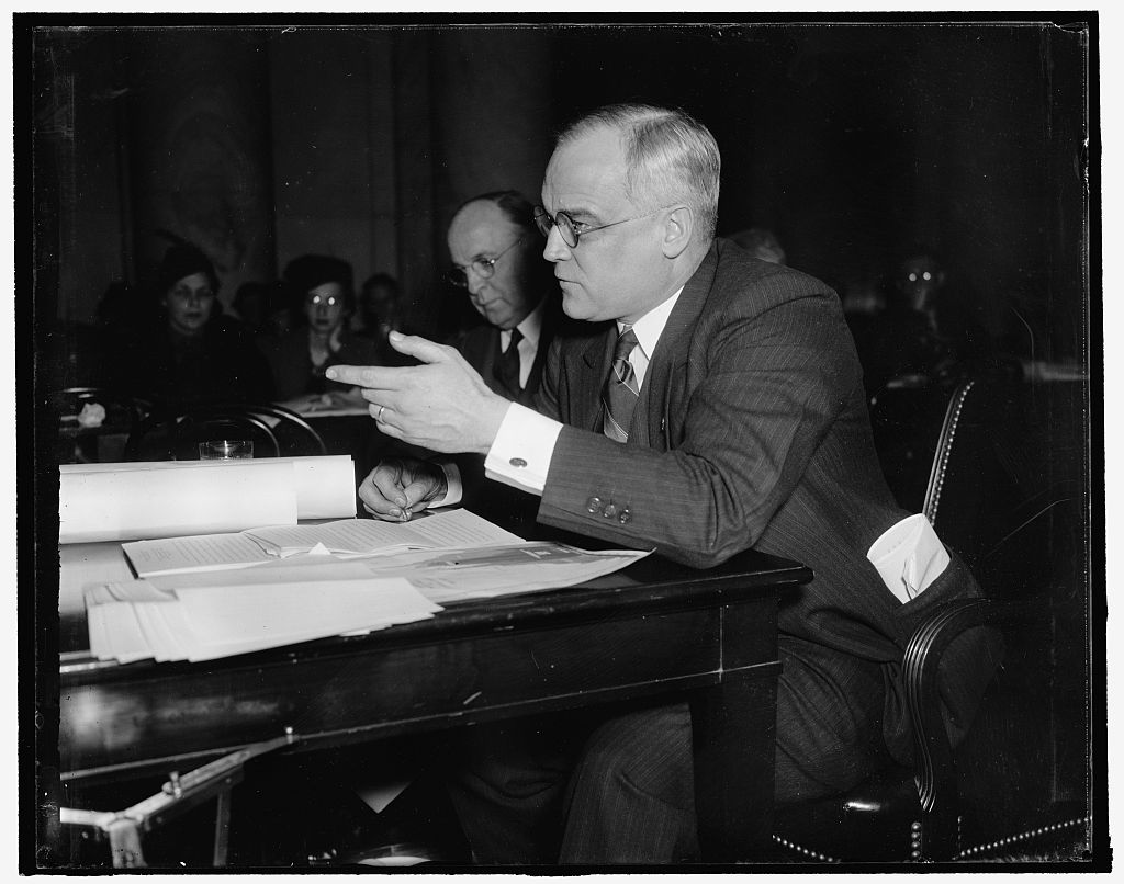 Title: Unemployment in Cleveland rises. Washington, D.C., Jan. 17. Mayor Harold H. Burton of Cleveland, today told the Senate unemployment committee that unemployment in his city has risen from 89,1000 last October 15 to 175,000 on January 6 of this year. He submitted to the committee a three-point program for encouraging private employment, extending WPA and establishing state and local security systems for the permanent unemployed, 1/17/38 Abstract/medium: 1 negative : glass ; 4 x 5 in. or smaller